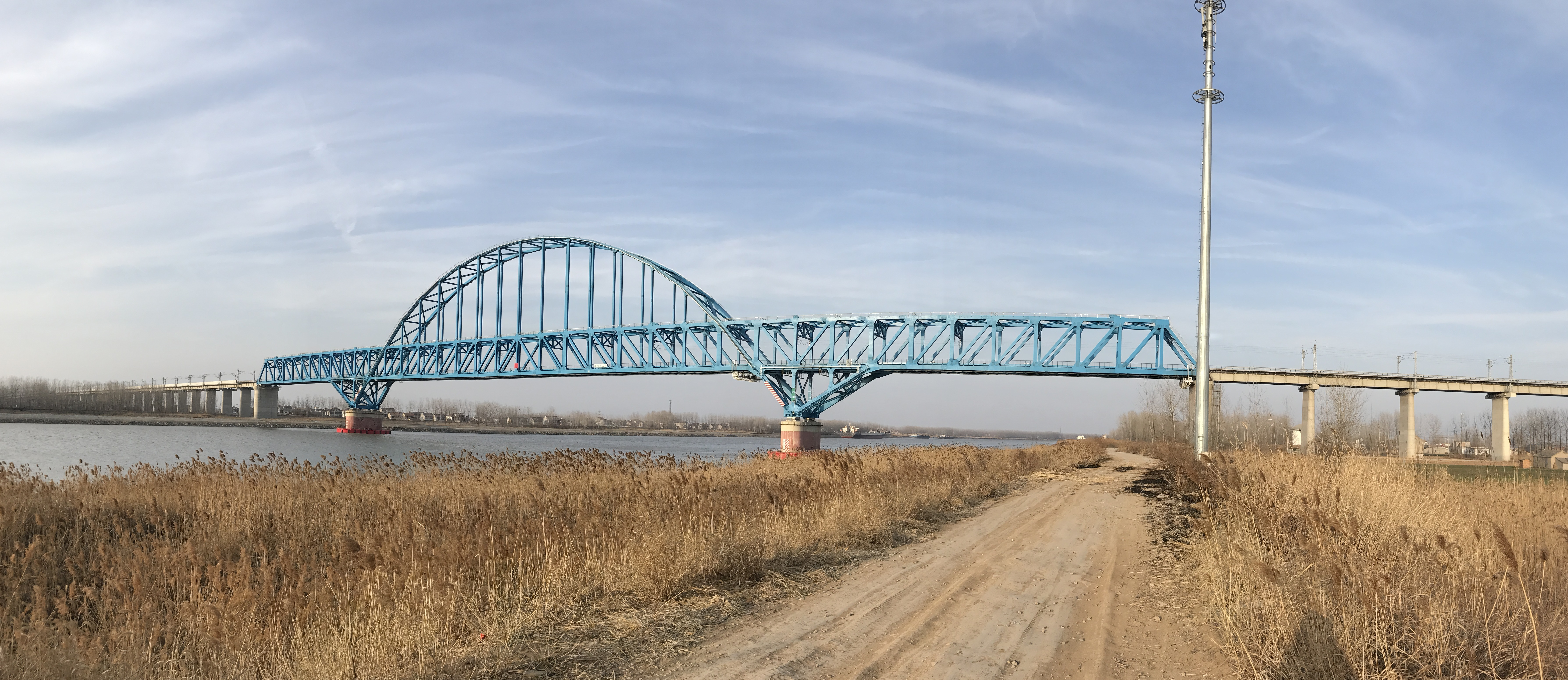 front side of GuanHe Extra Large Bridge (灌河特大桥)